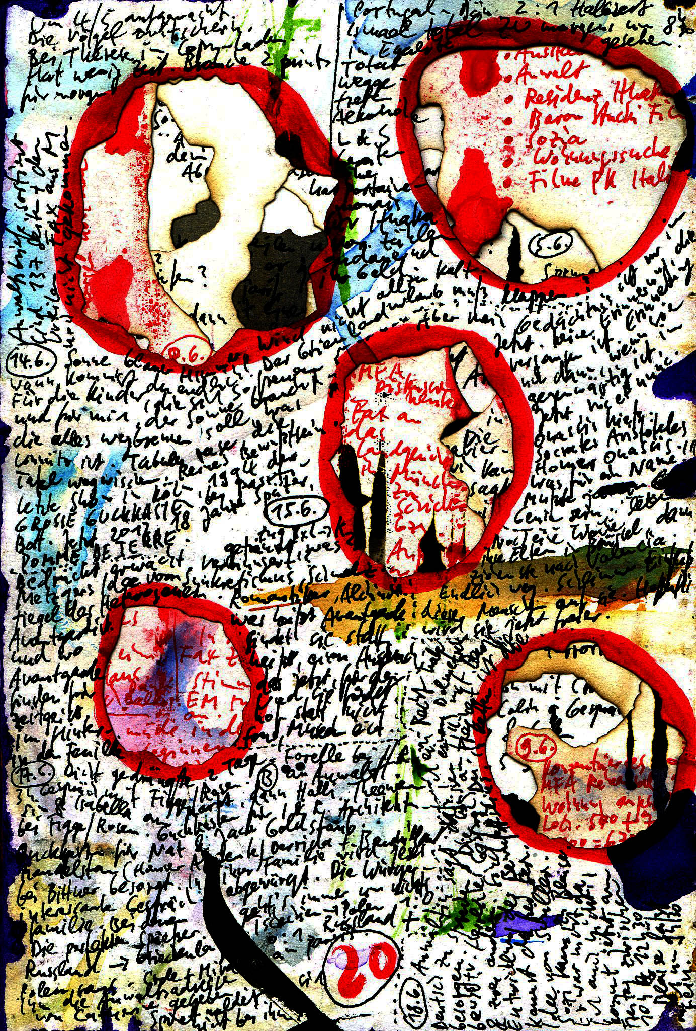 Travel notebook page, 14.-16.6.2012